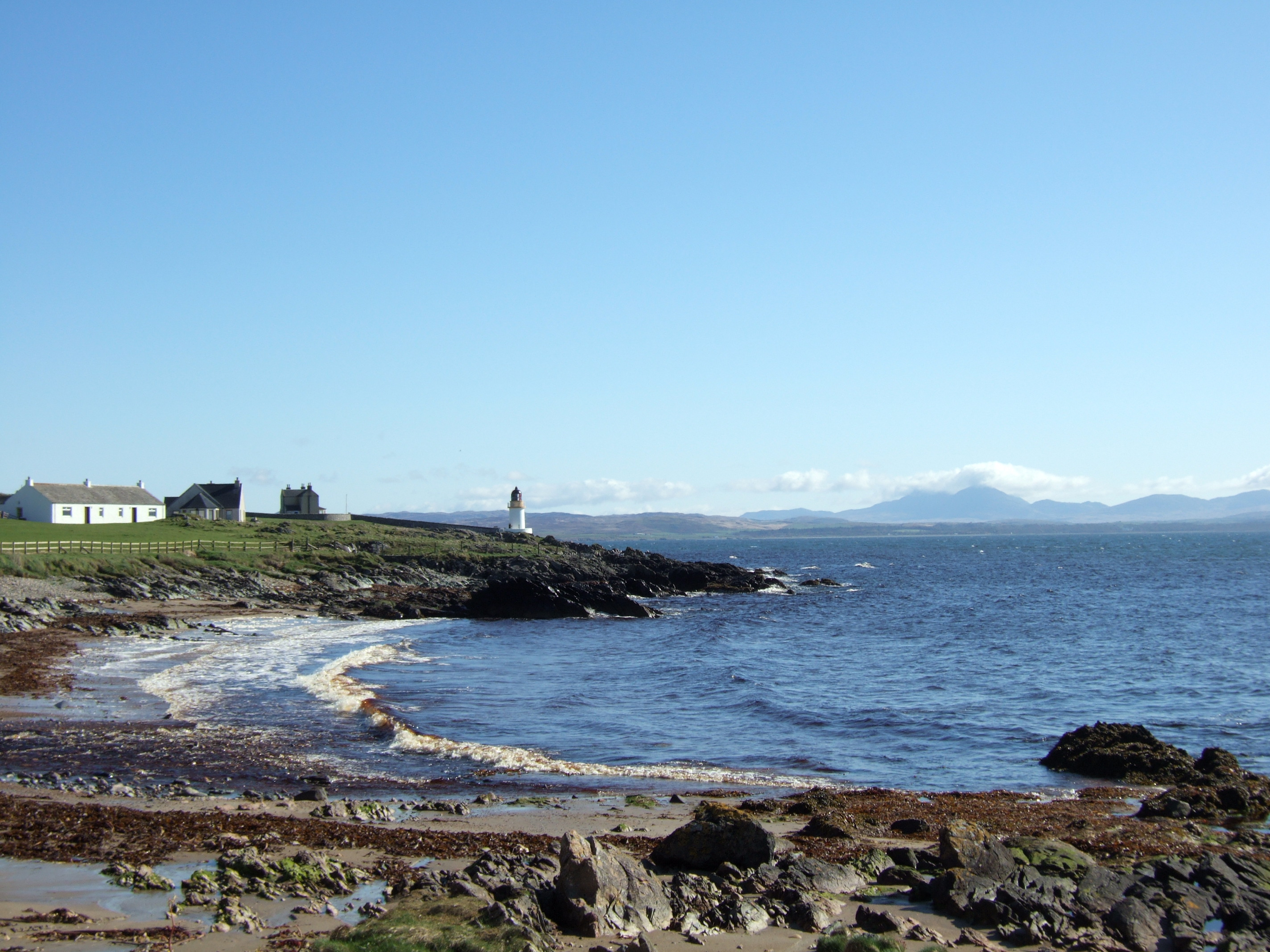 View of Loch Indaal, a sea loch of Islay, taken from Port Charlotte looking across the island of Islay to the mountains (the "paps") of Jura.